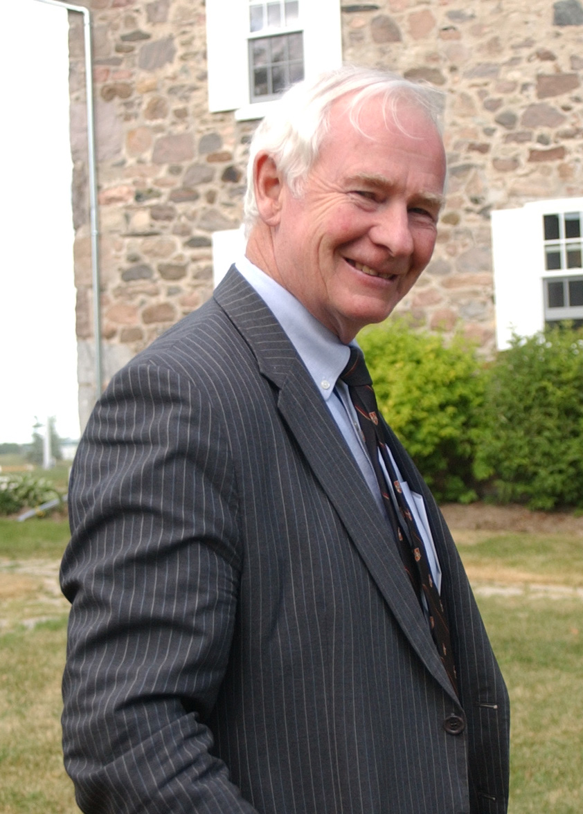 David Lloyd Johnston, then the president of University of Waterloo, in front of Brubacher House. Taken at UW's Canada Day celebrations.